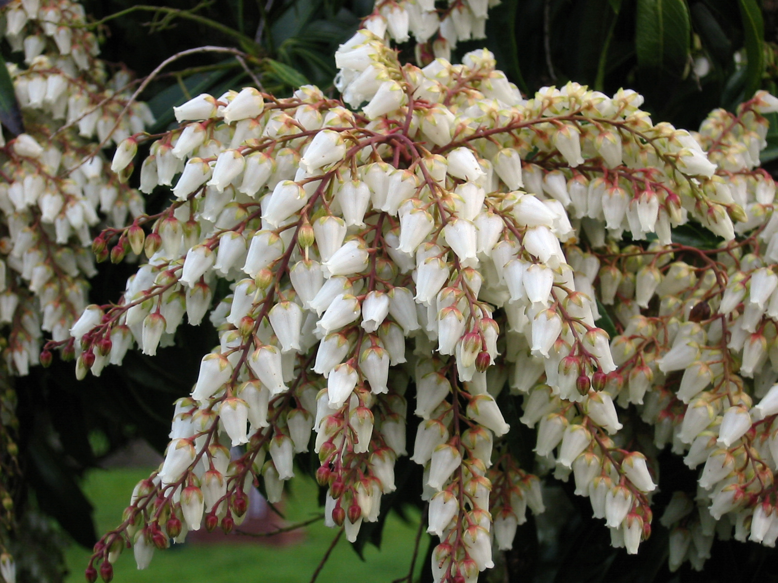 Pieris cultivar growing in an old cemetery in Seattle, Washington